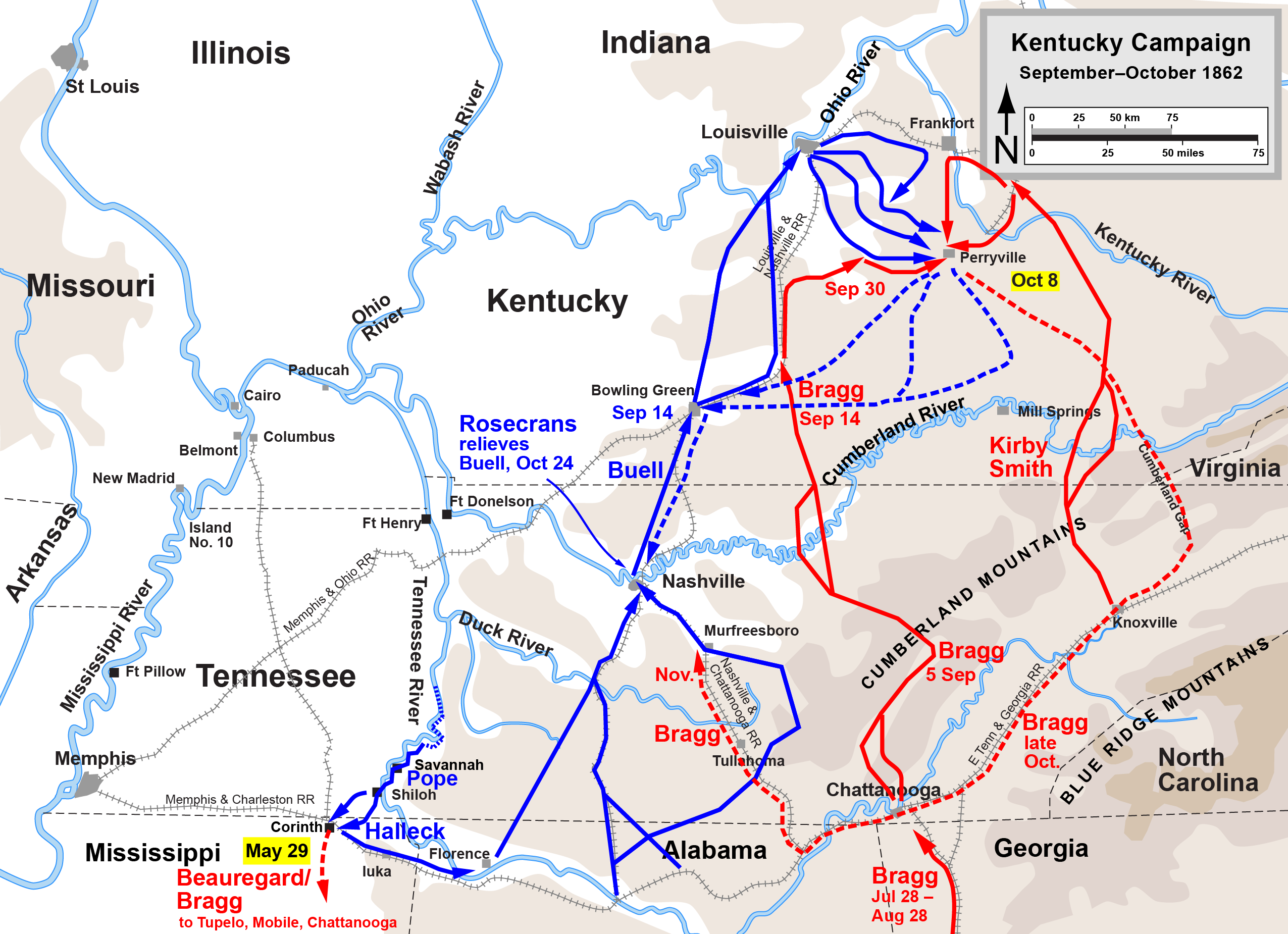 Map of the Western Theater of the American Civil War, actions from First Corinth to Perryville. Drawn by Hal Jespersen in Adobe Illustrator CS5. Graphic source file is available at